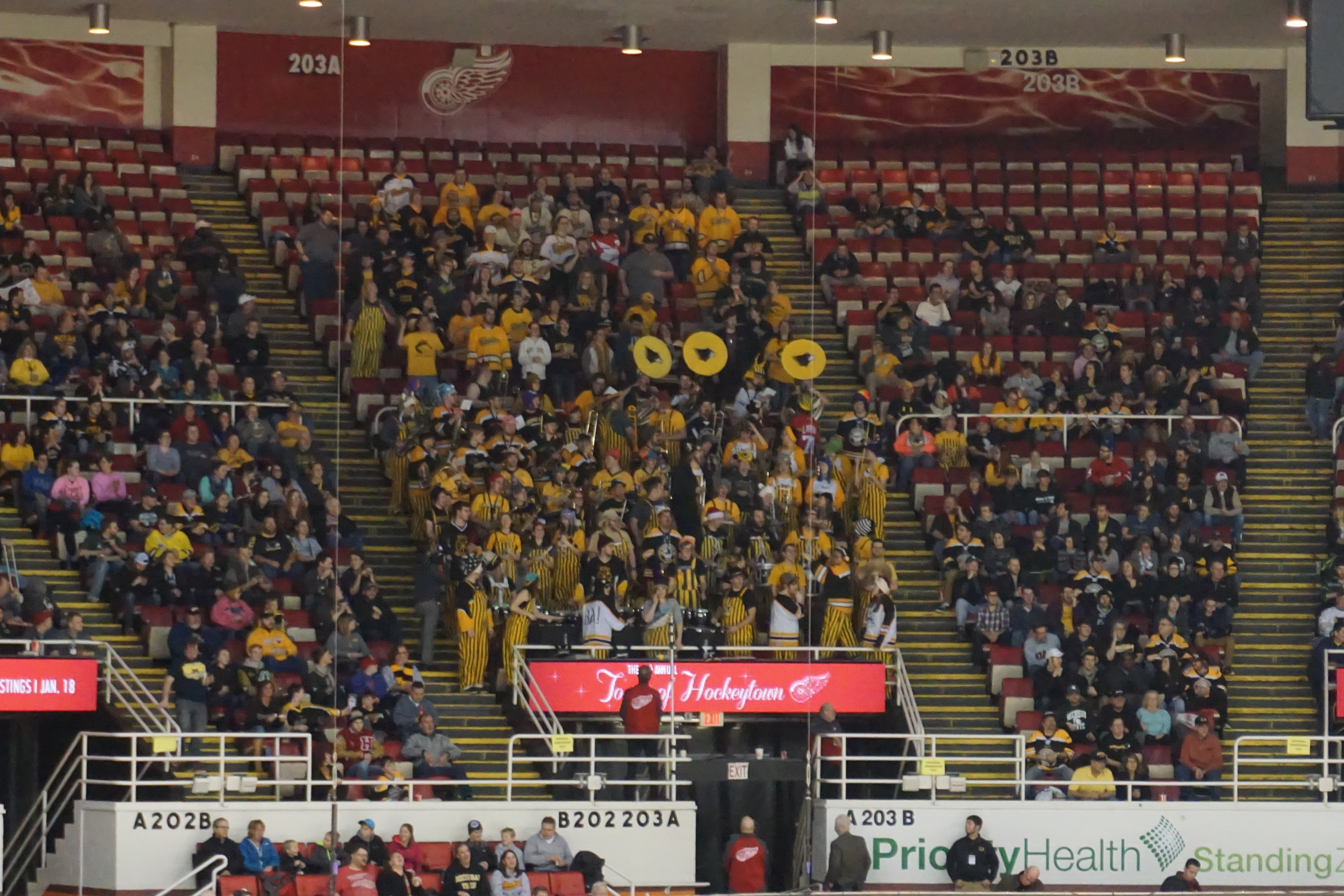 Michigan Tech's Huskies Pep Band during the Michigan Wolverines vs. Michigan Tech Huskies men's ice hockey game (the 2015 Great Lakes Invitational championship game) at Joe Louis Arena in Detroit, Michigan (United States). Michigan won 4–2.